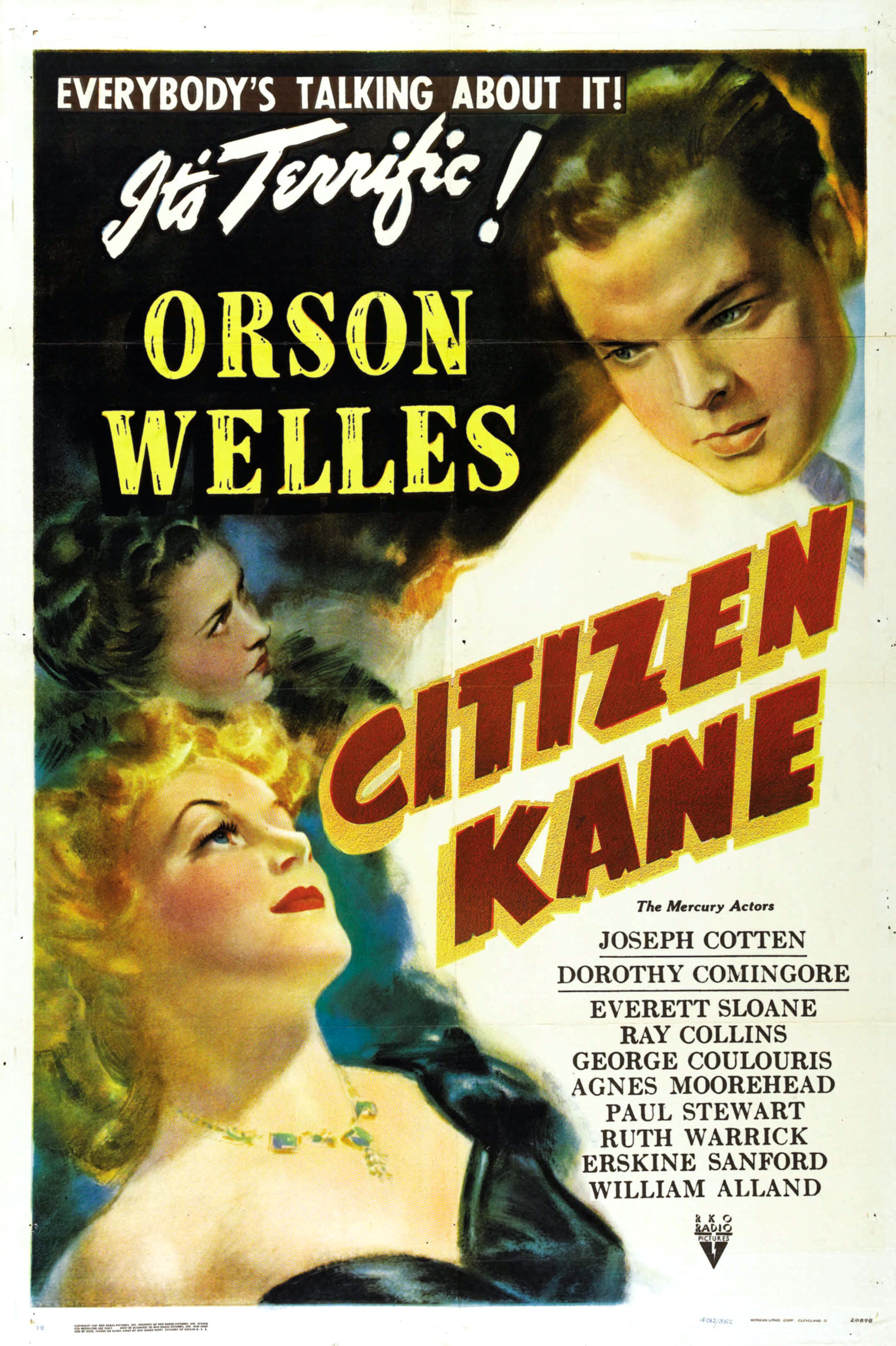 Theatrical poster for the American release of the 1941 film Citizen Kane. This design is designated "Style B". This image is a scan of an unrestored original poster.